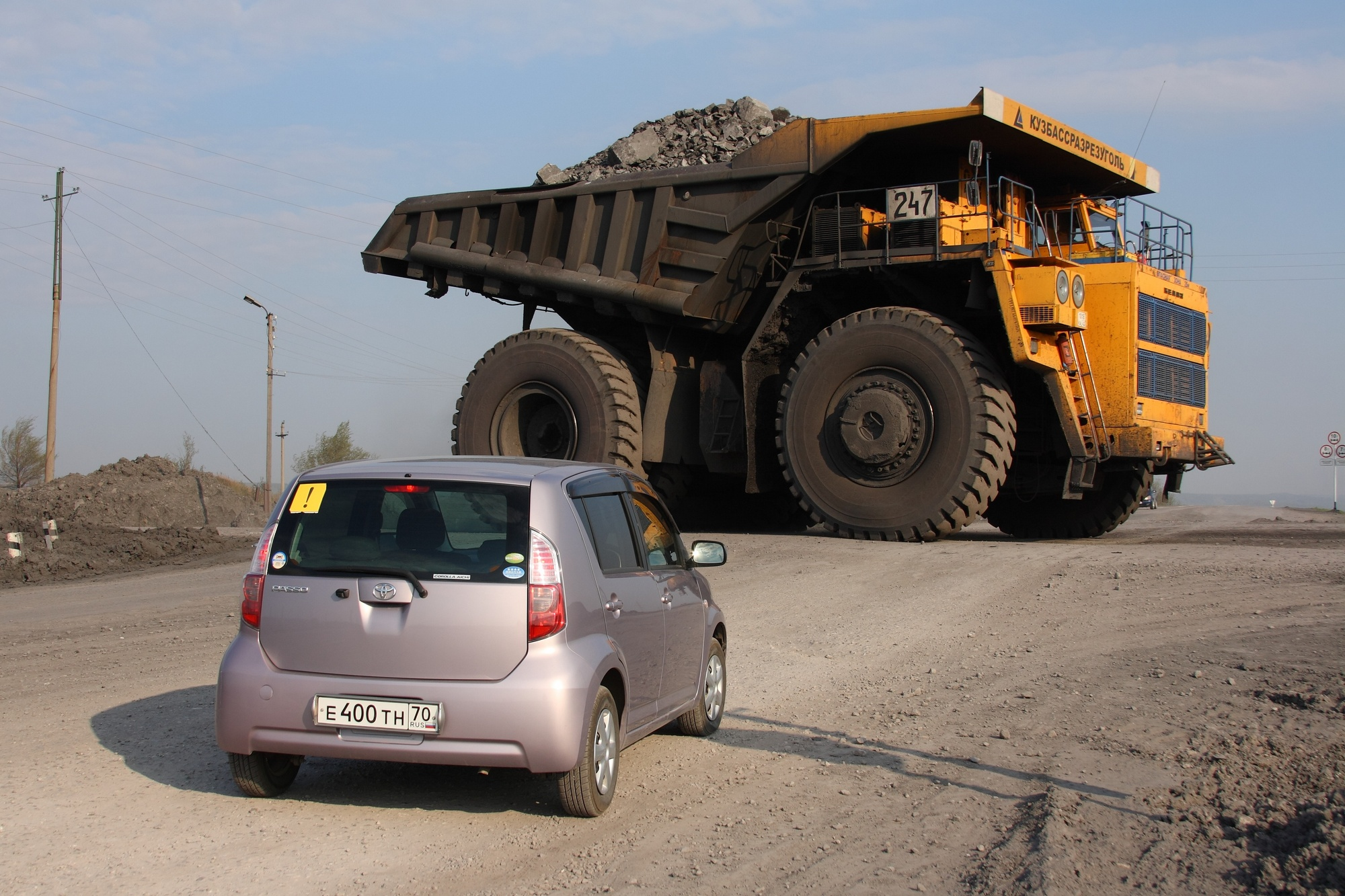 Toyota Passo giving way to Belaz haul truck in Bachatsky, Kemerovo region, Russia